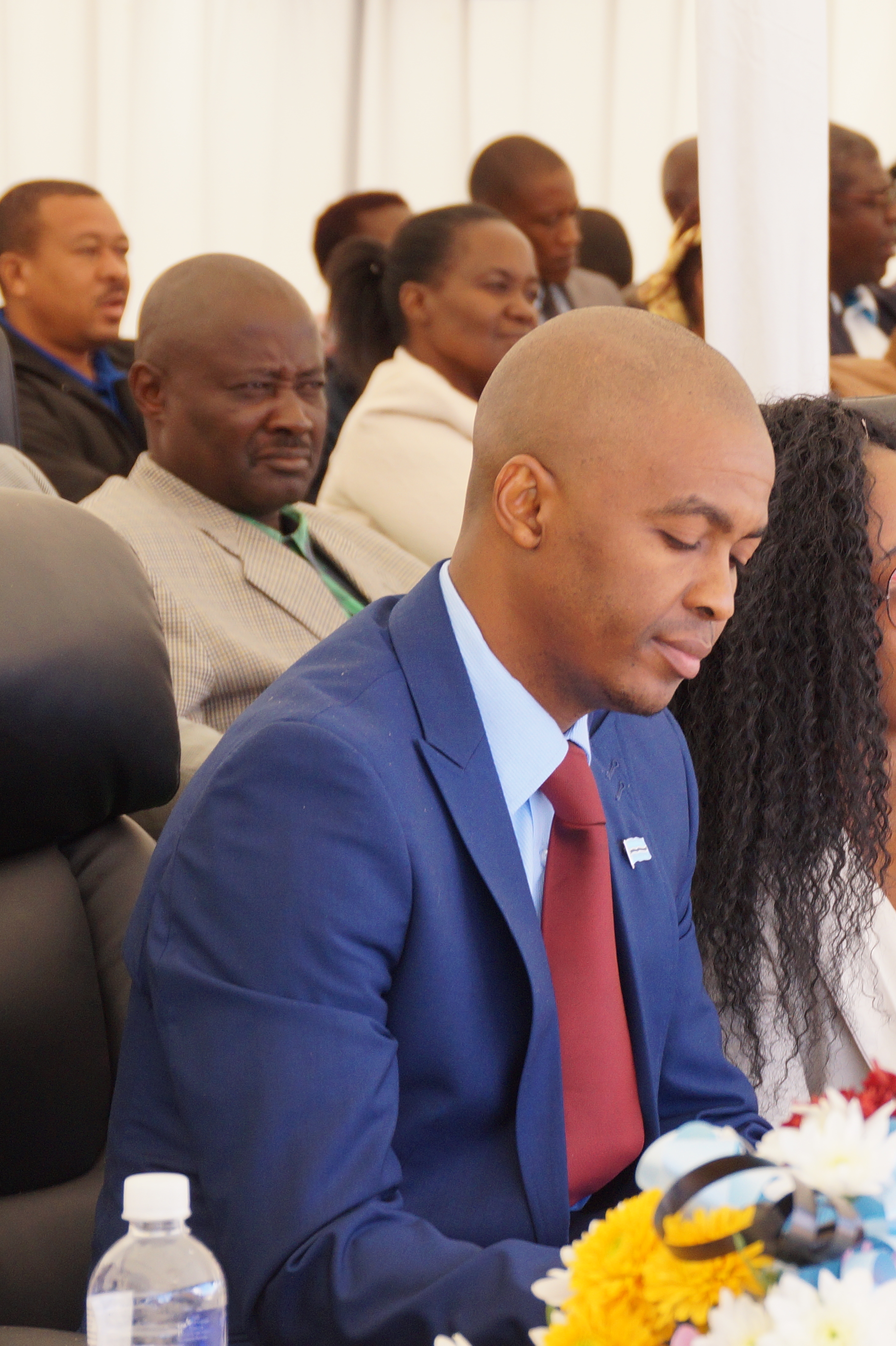 The third chief of Masunga village